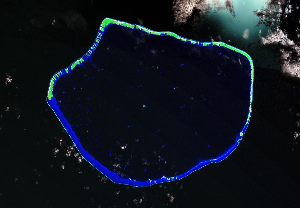 Arutua Atoll FP - Landsat S-06-15_2000 (1:170,000)